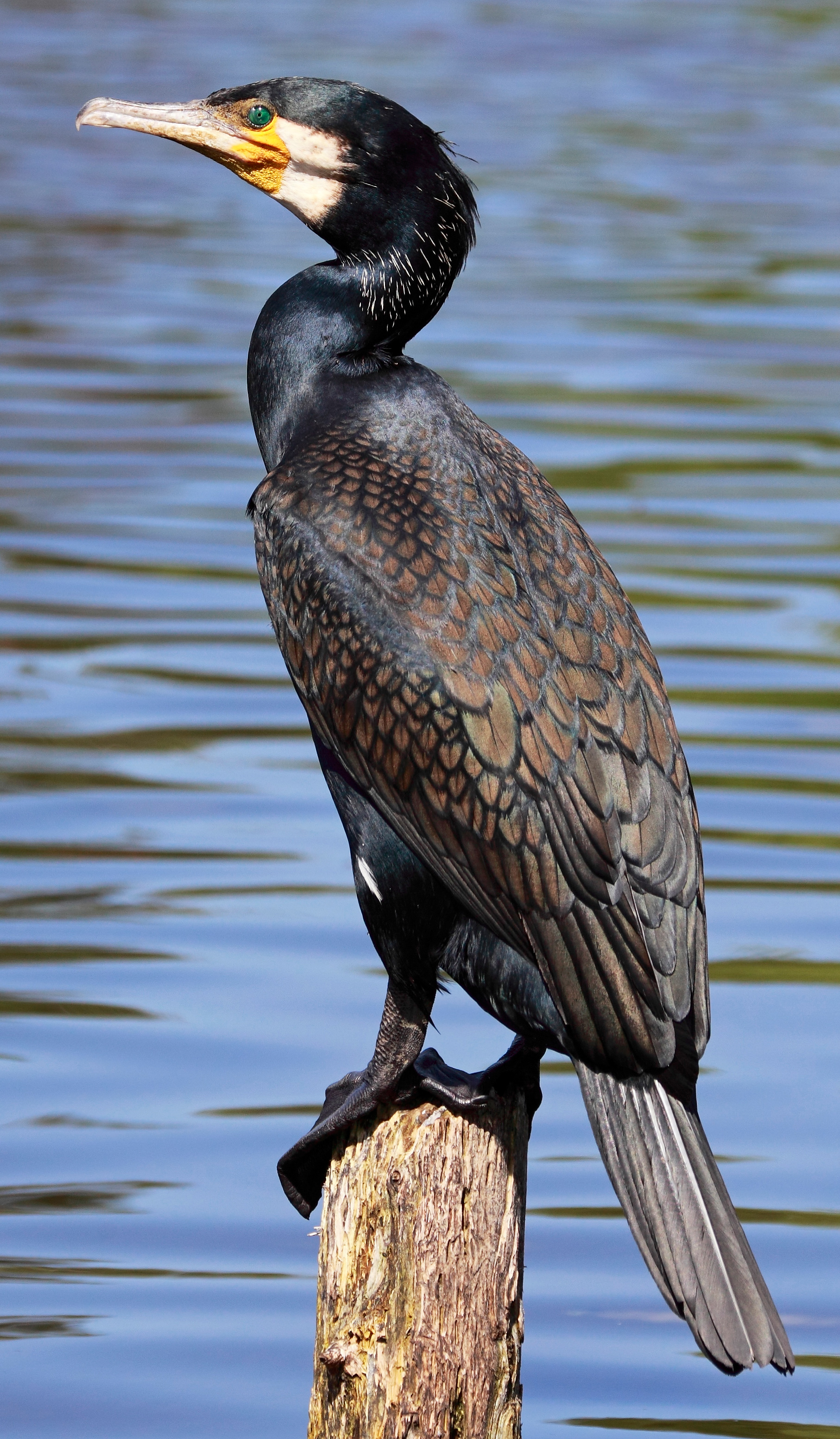 Great cormorant (Phalacrocorax carbo), Uetersen, Germany.